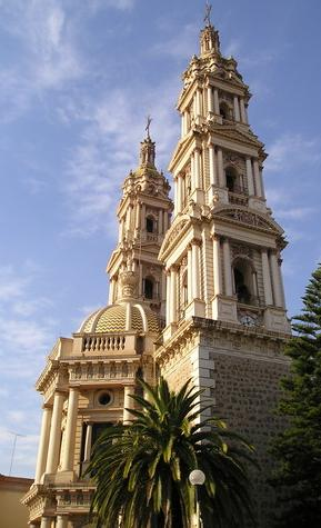 Profile image of the facade of the San Francisco de Asis church in Tepatitlan